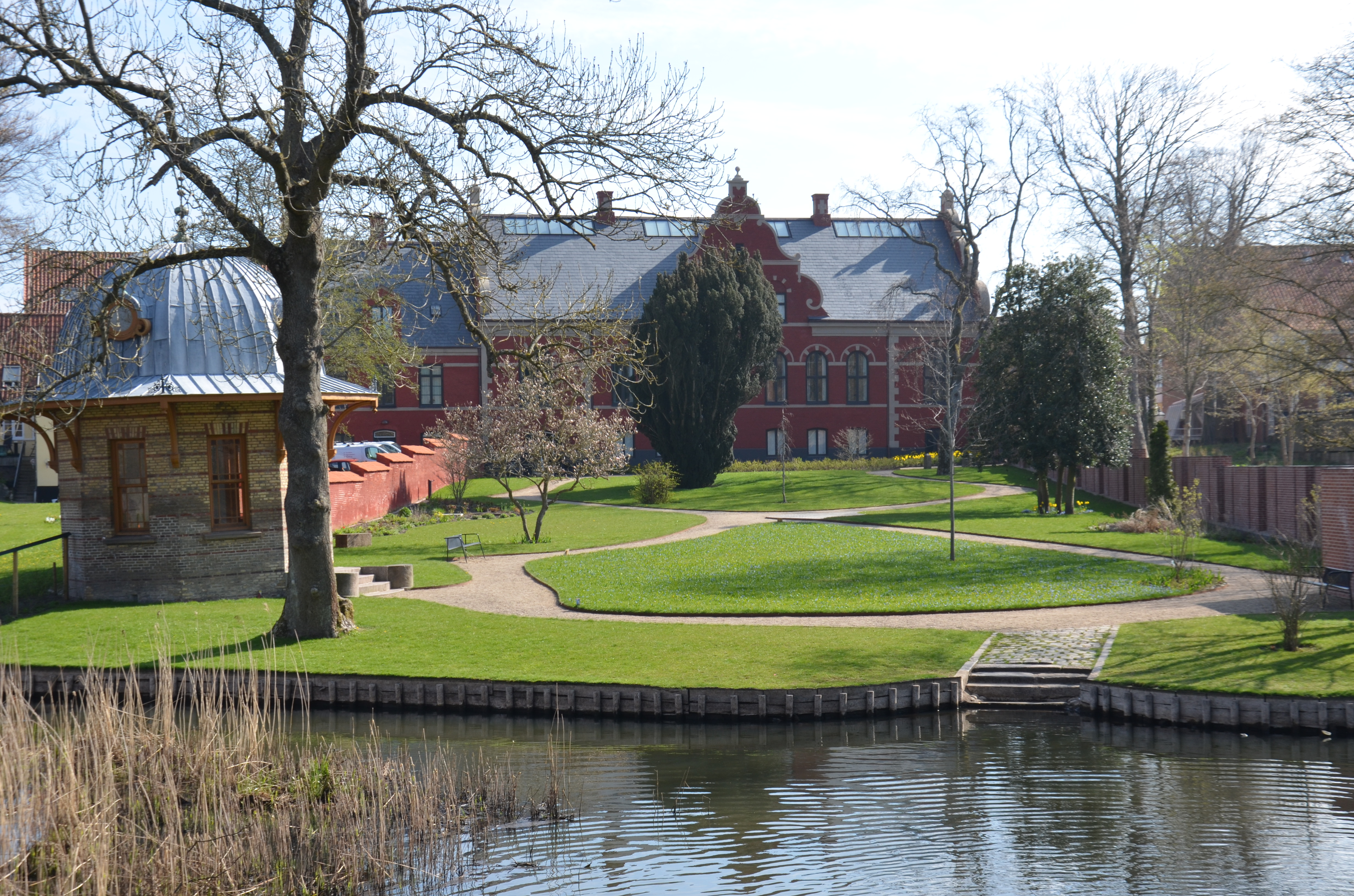 Ribe Kunstmuseum, Ribe, DenmarkDansk: Kunstmuseets have